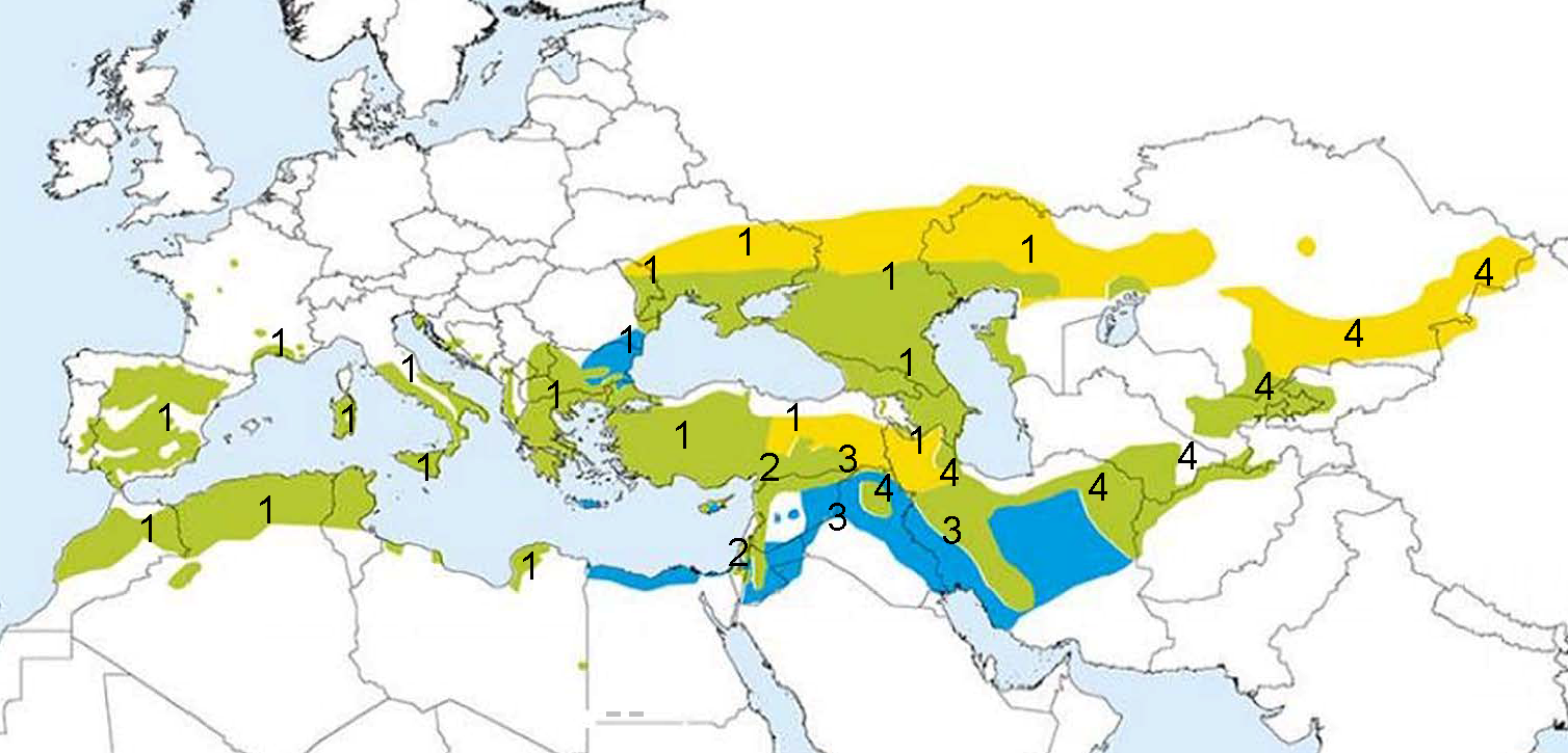 Melanocorypha calandra. Subspecies and Distribution